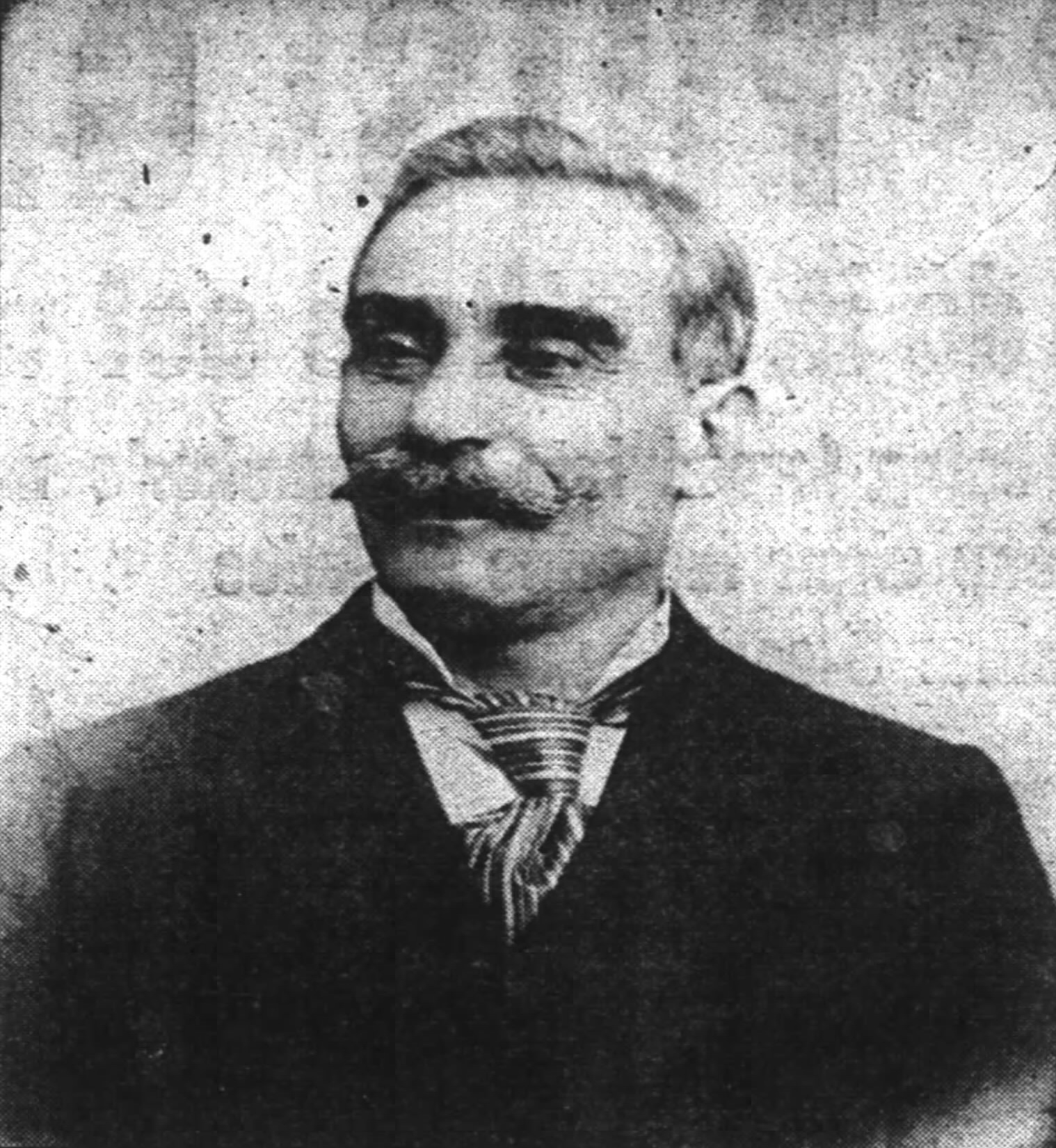 Ibrahim George Kheiralla, first Baha'i missionary to the United States